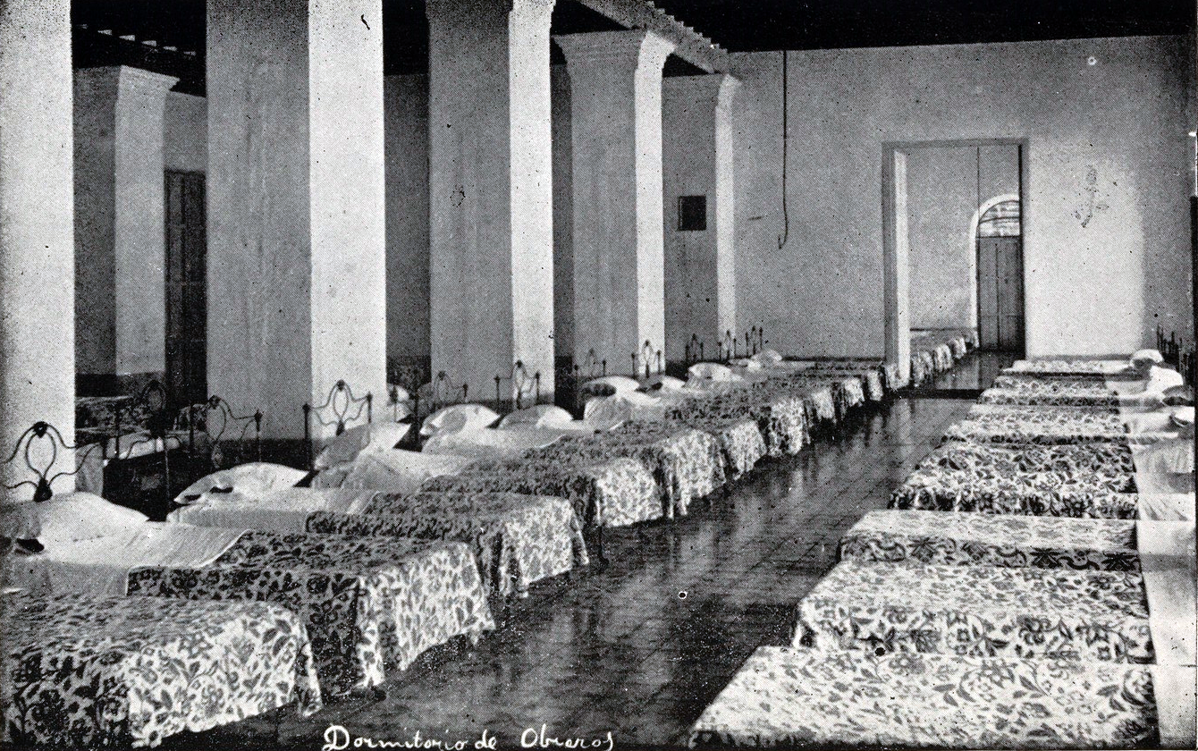 Casa de Beneficencia y Maternidad de La Habana